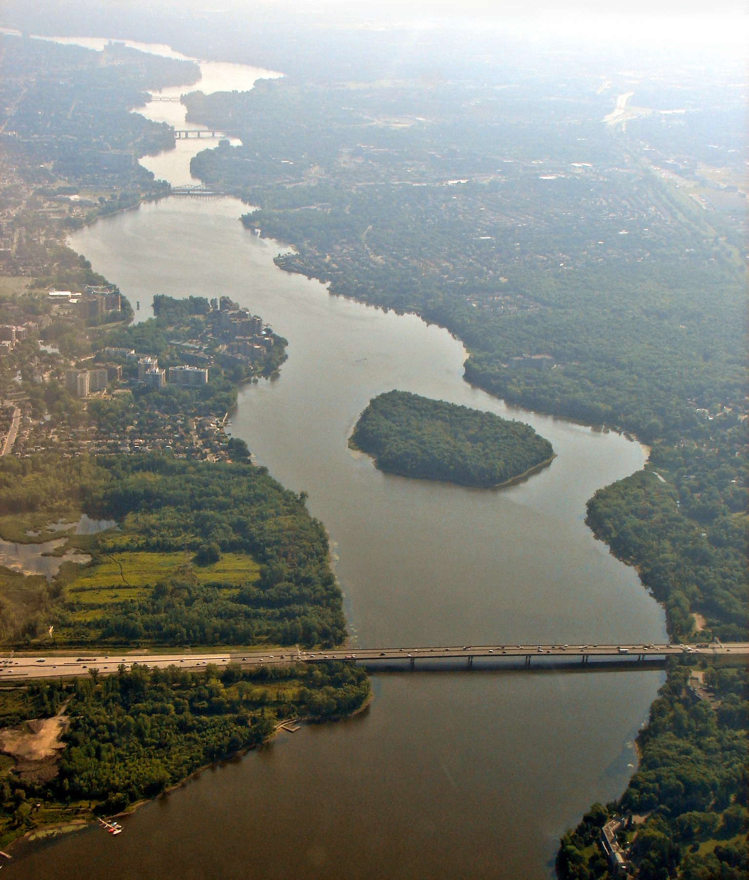 Rivière des Prairies, Quebec, Canada. Looking east with Laval to the left and Montreal to the right. In the foreground is the Louis-Bisson Bridge (Autoroute 13) and Chats Island. In the distance are the Lachapelle Bridge, Médéric Martin Bridge (Autoroute 15), and the Bordeaux railway bridge. The residential housing visible in center-left is on Paton and Du Tremblay Islands in Laval.